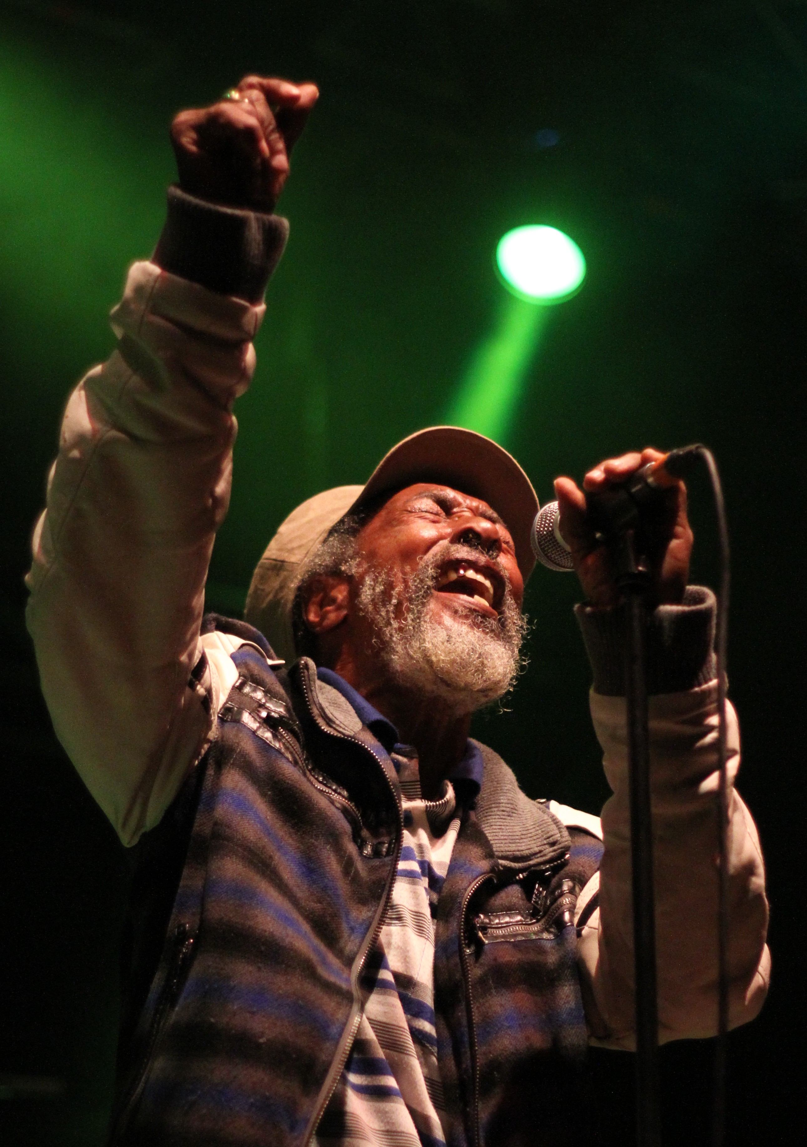 Ijahman Levi at Chiemsee Reggae Summer Festival 2013